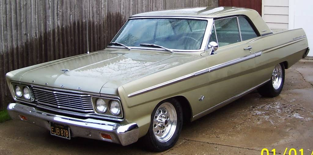 1965 Ford Fairlane 500